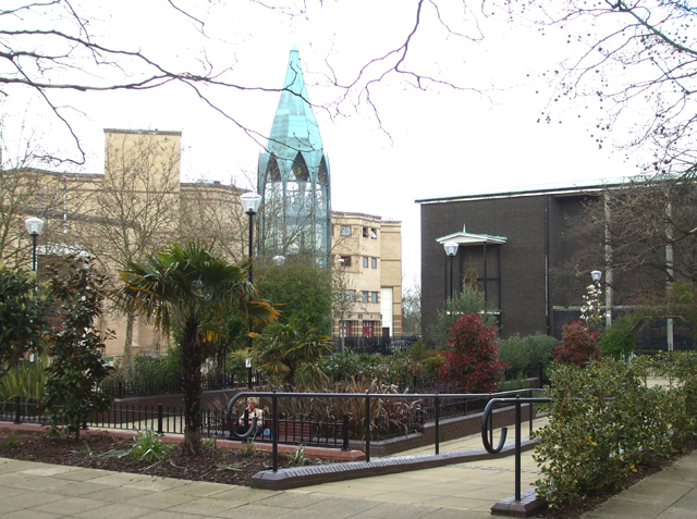 Garden in front of St Martin of Tours parish church, Basildon, Essex